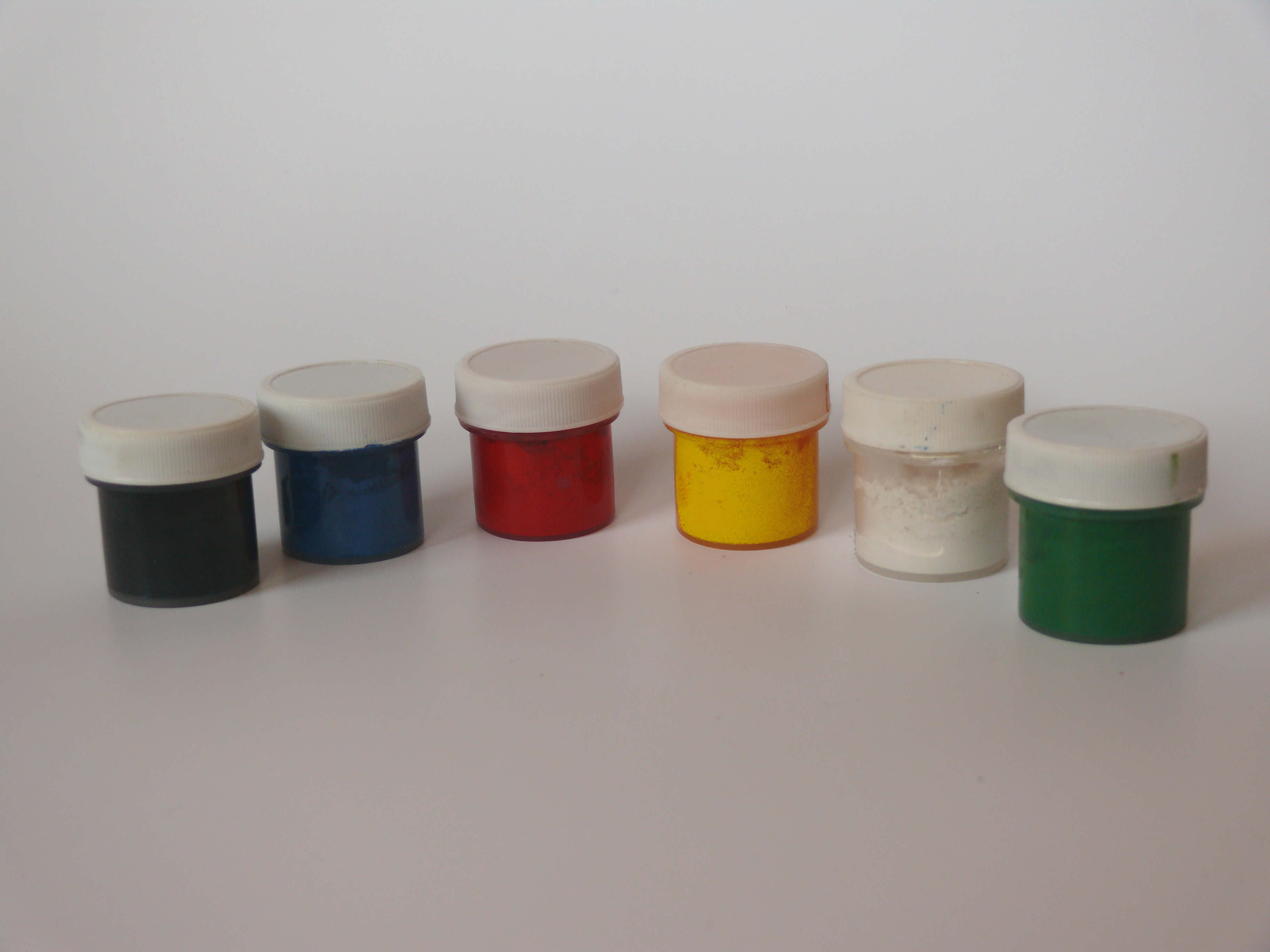 Gouache. Schcool set